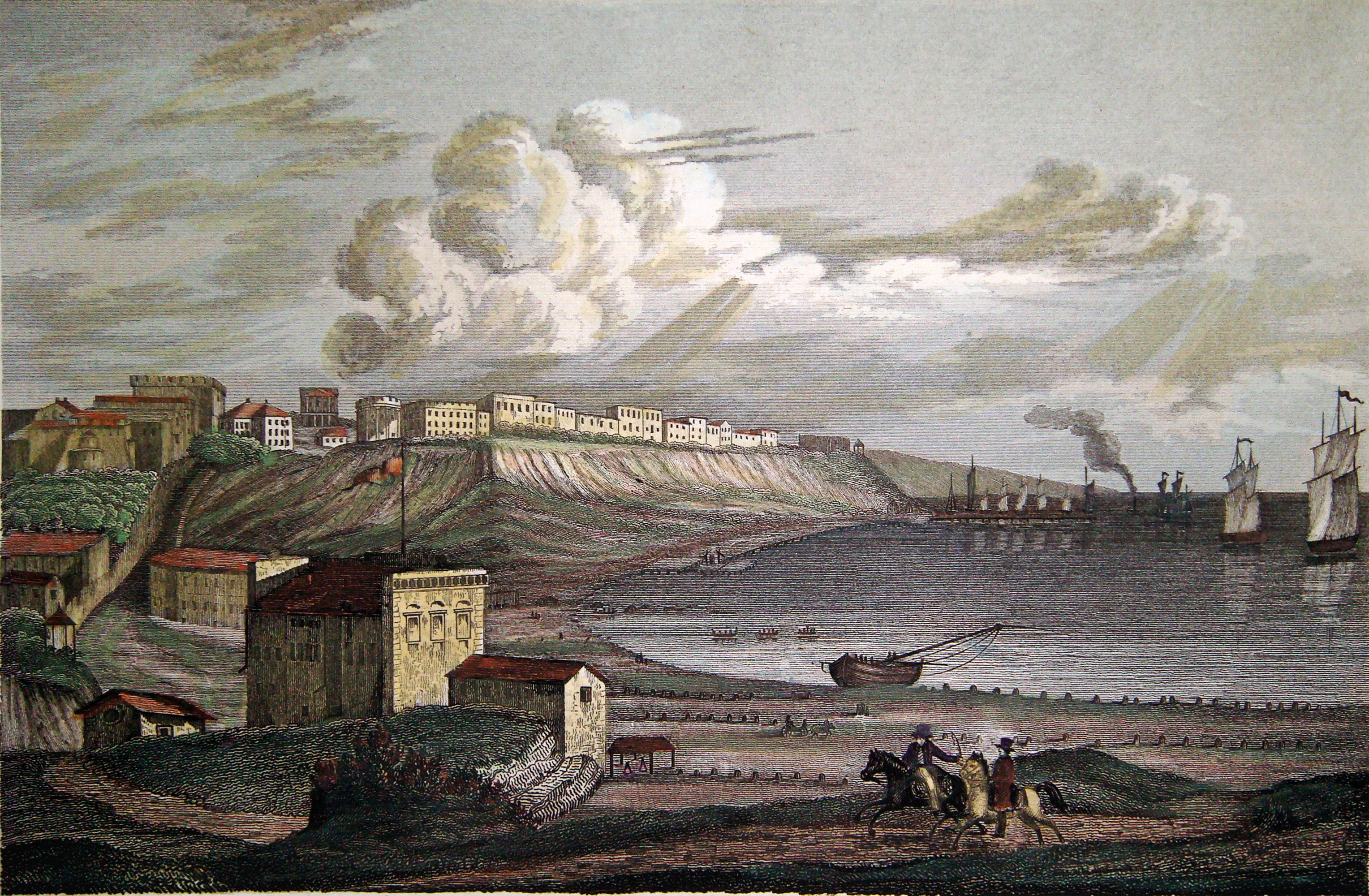 View of Odessa from the headland Peresyp (from German travel book of 1837). Watercoloured lithograph by L. Bokkachini (1830-1840-ies). City History Museum, Odessa.